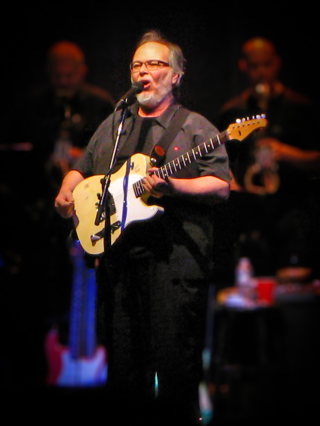 Walter Becker October 2013